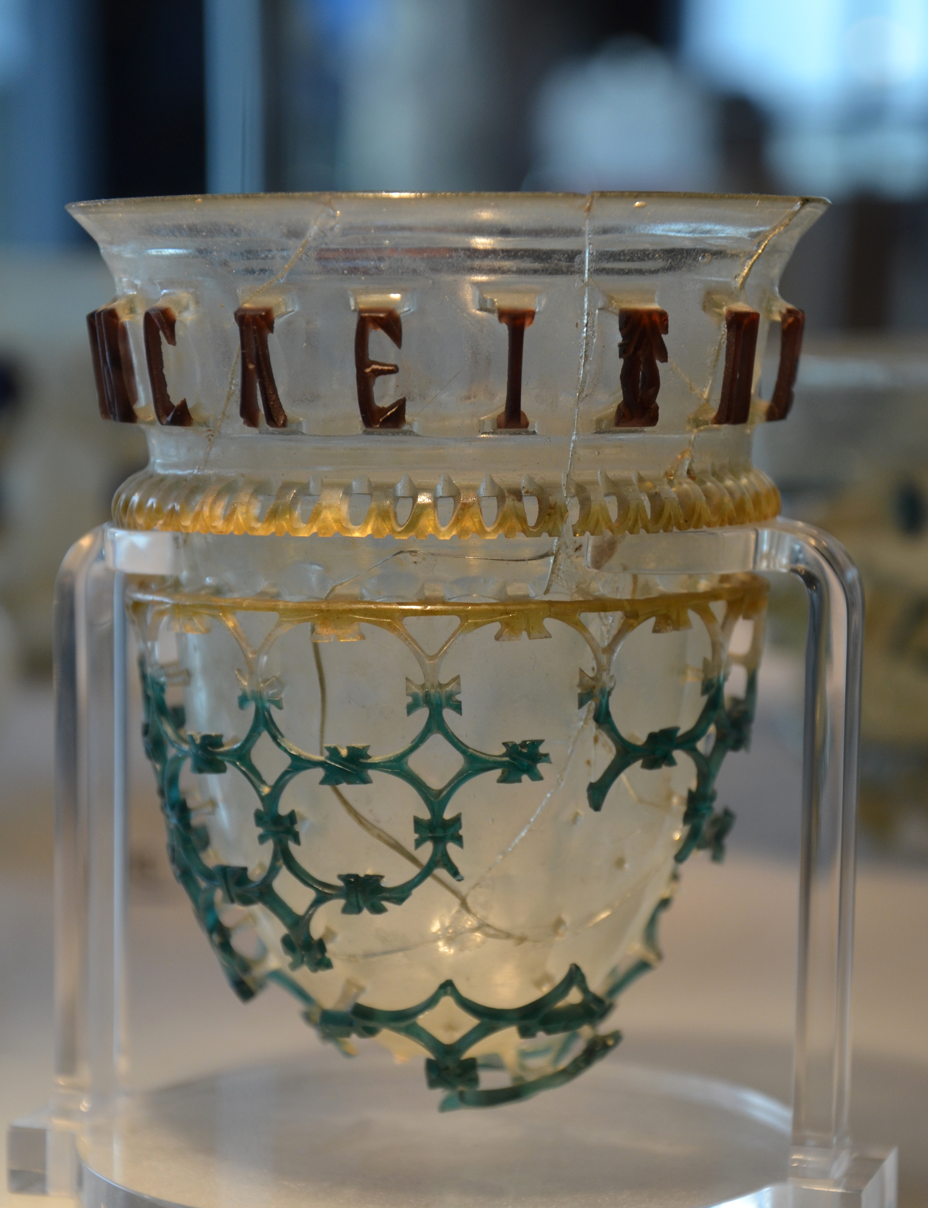 The Cologne diatreta glass bowl (cage cup), 1st half of 4th century AD, found in Cologne from grave 5 in the family cemetery of a villa rustica, Roman glassware, Romisch-Germanisches Museum, Cologne